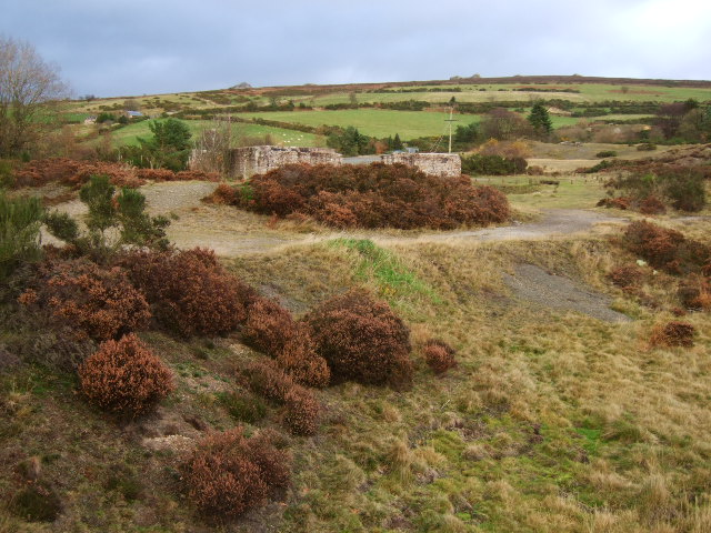 The Bog Lead Mine The last remaining walls of one of the buildings at the lead mine. This was latterly the site of the Miners Welfare until about 1970. The spoilheaps are well covered with bushes